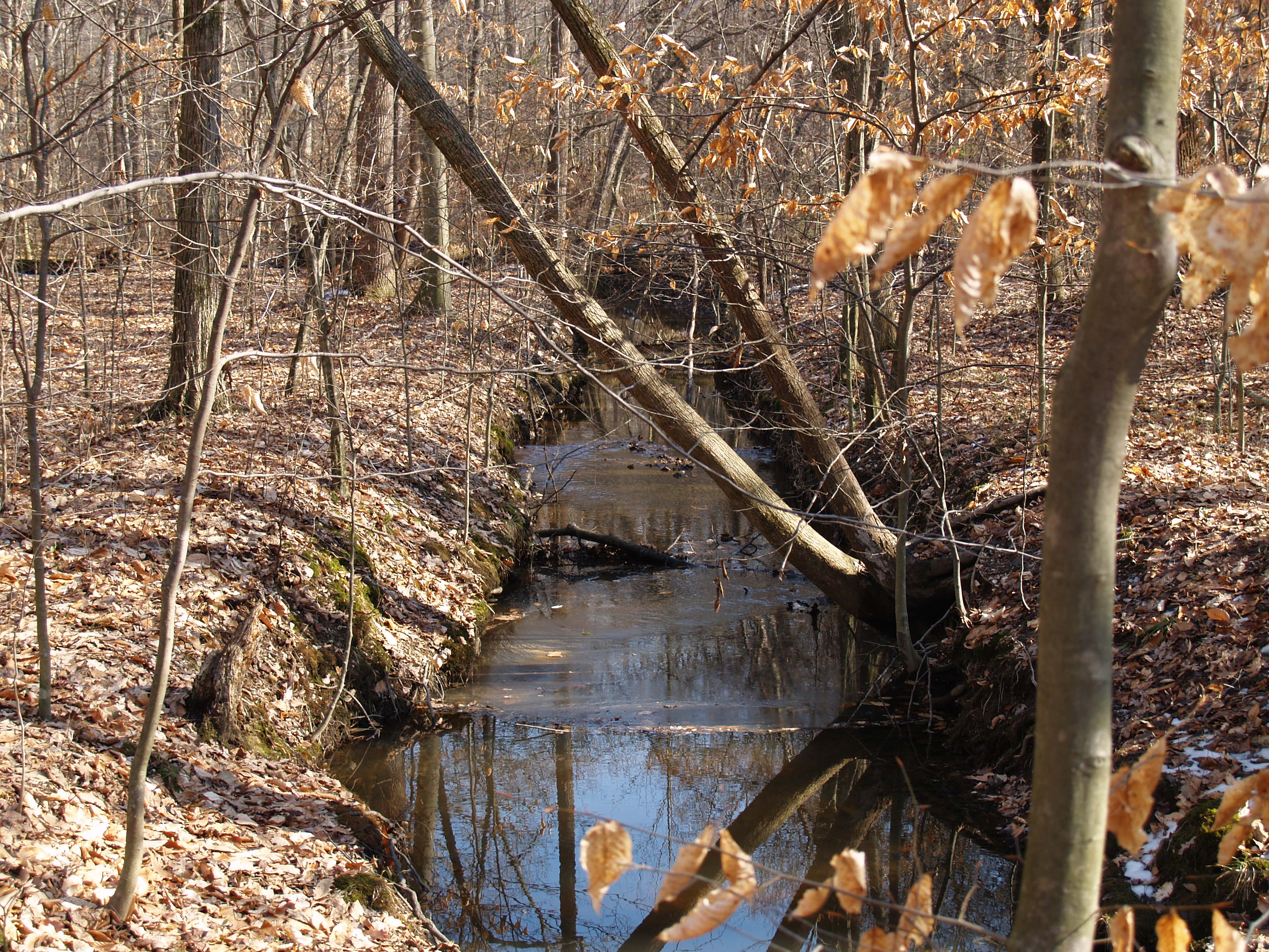 Jordan Branch (Sewell Branch tributary) in Blackiston Wildlife Area. Image taken in 2009.